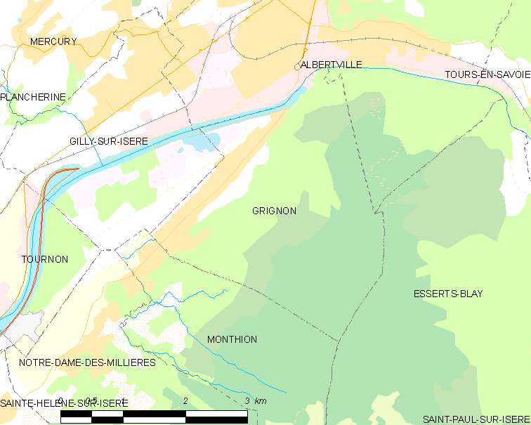 Map of French municipality